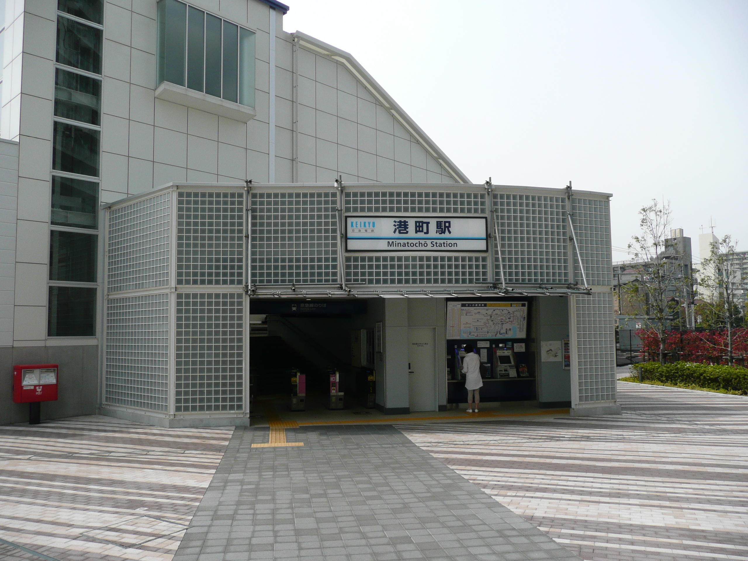 North Entrance of Minatochō Station